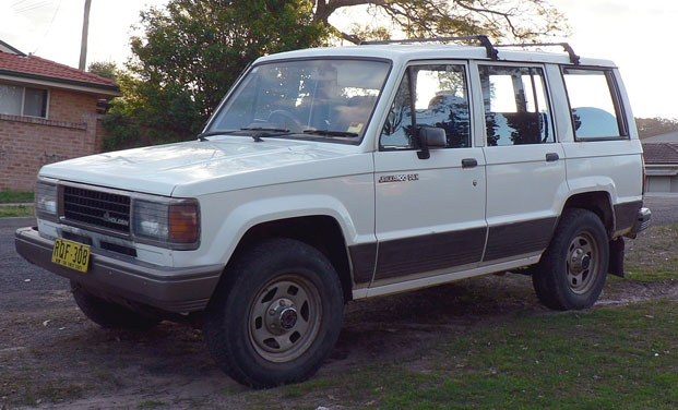 1989 Holden Jackaroo DLX 5-door wagon, photographed in New South Wales, Australia.